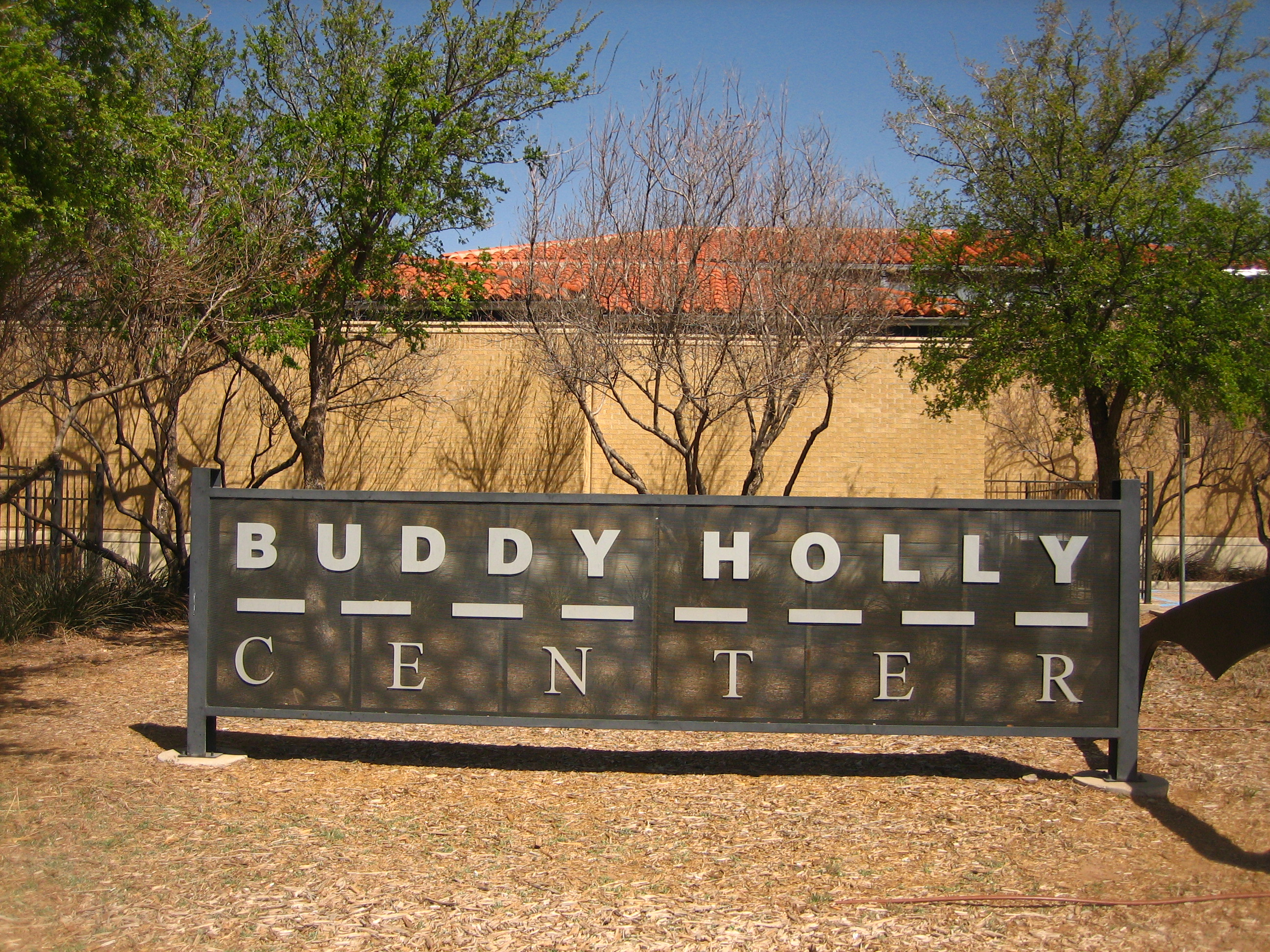 I took photo on April 3, 2009.Billy Hathorn (talk) 04:31, 10 April 2009 (UTC)